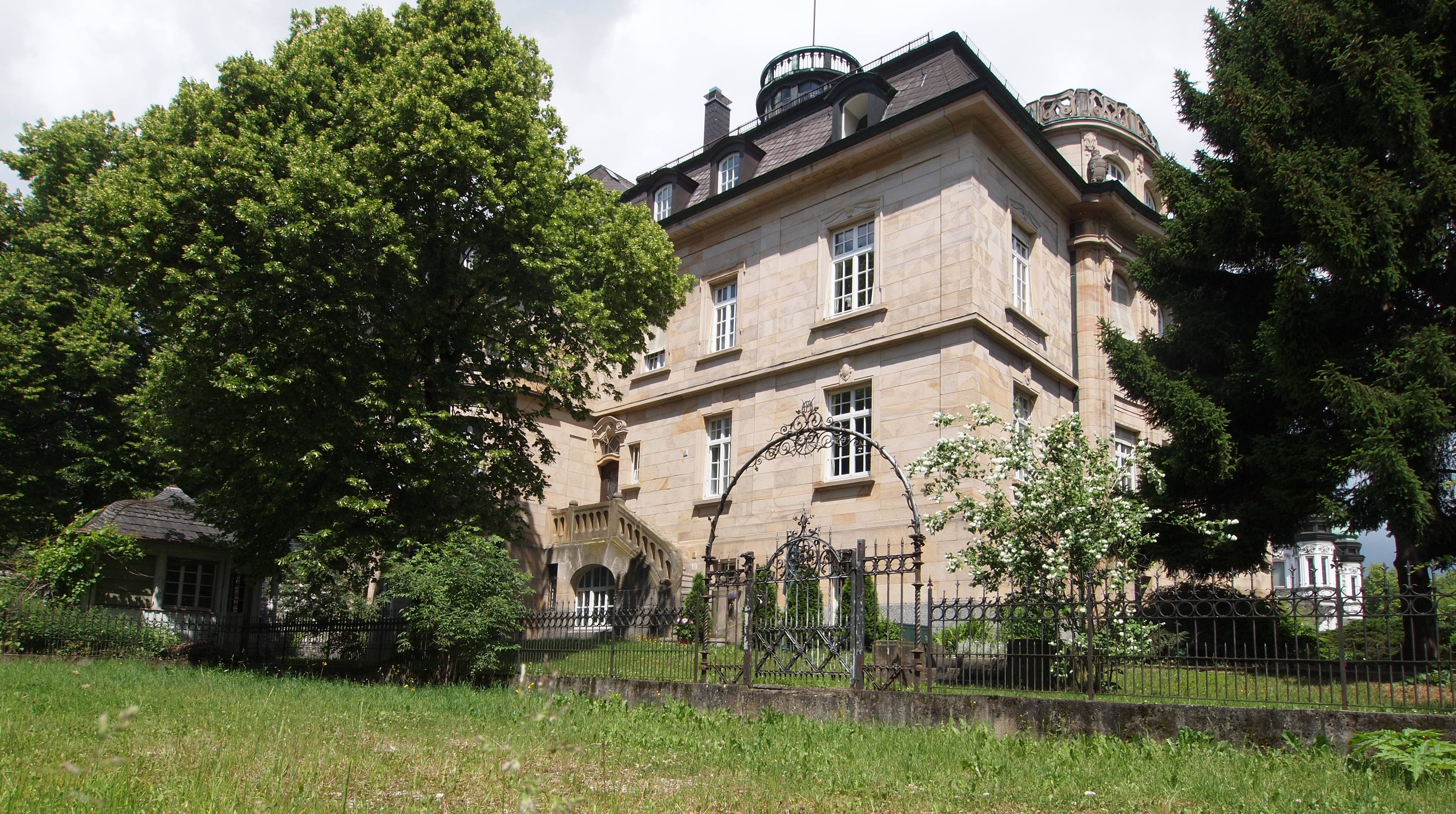 Villa Haux in Albstadt, Germany